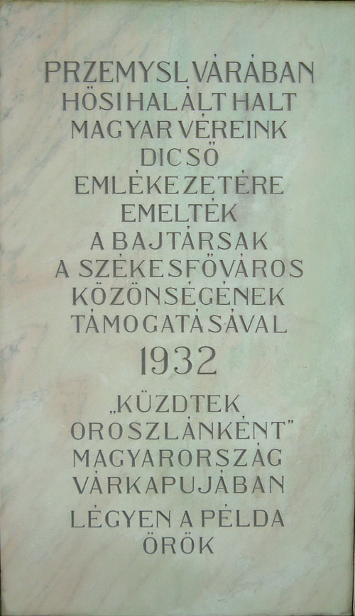 Inscription on the Monument of the Przemyśl Siege Victims. 2nd district of Budapest, Hungary